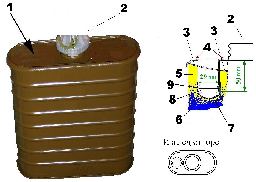 Redesign of a standard gas mask filter (for protection against hydrogen sulfide), USSR 1962. 1 place for setting the end of operation indicator indicator, 2 place for connecting the hose to the filter 3 grid, which separates the sorbent from the free space at the top of the filter, 4 joining the parts by welding or soldering, 5 not saturated sorbent, 6 saturated sorbent, 7 metal mesh, 8 indicator paper that changes color, 9 round glass.